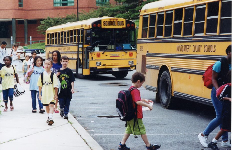 Children leaving the school. Montgomery County, Maryland.